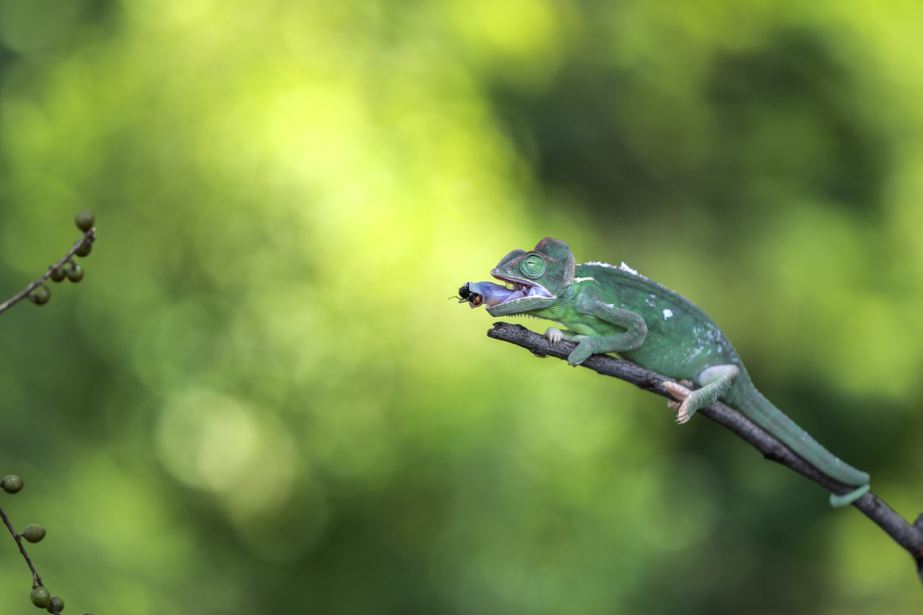 A chameleon start to catch its prey by extending his tounge